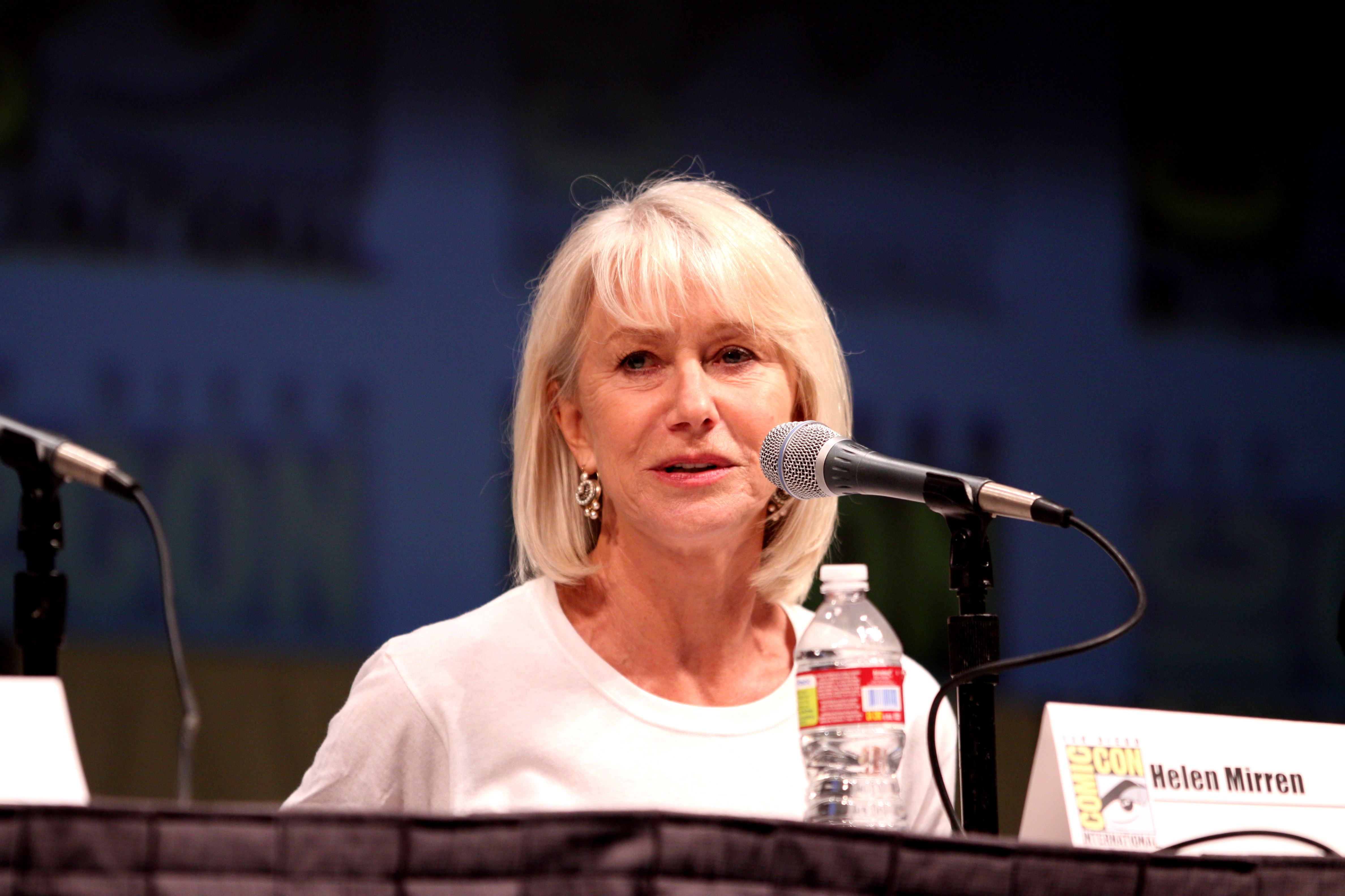 Actress Helen Mirren on the Red panel at the 2010 San Diego Comic Con in San Diego, California.